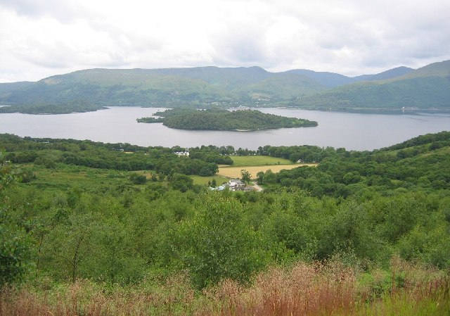 Cashell. Cashell farm has been given over to the creation of a native tree forest. View to the farm buildings and Loch Lomond.